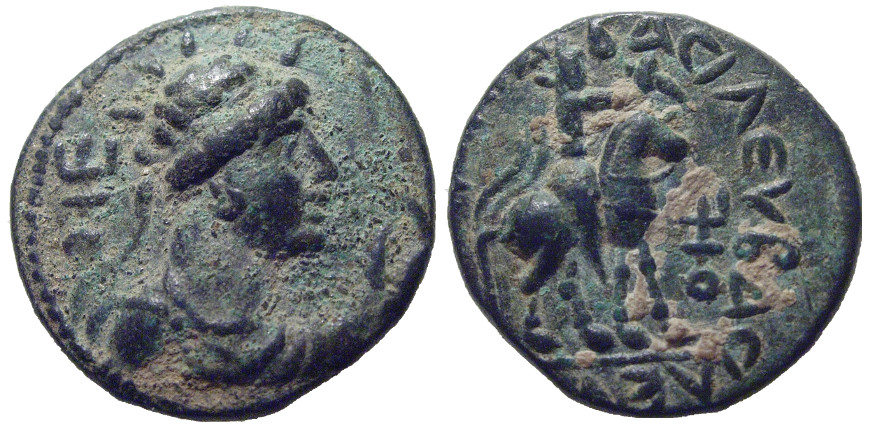 This is a well preserved ancient coin from the Kushan Empire dating back to the 1st century AD. Refer Kushana Numismatics pg. 94 No. 49